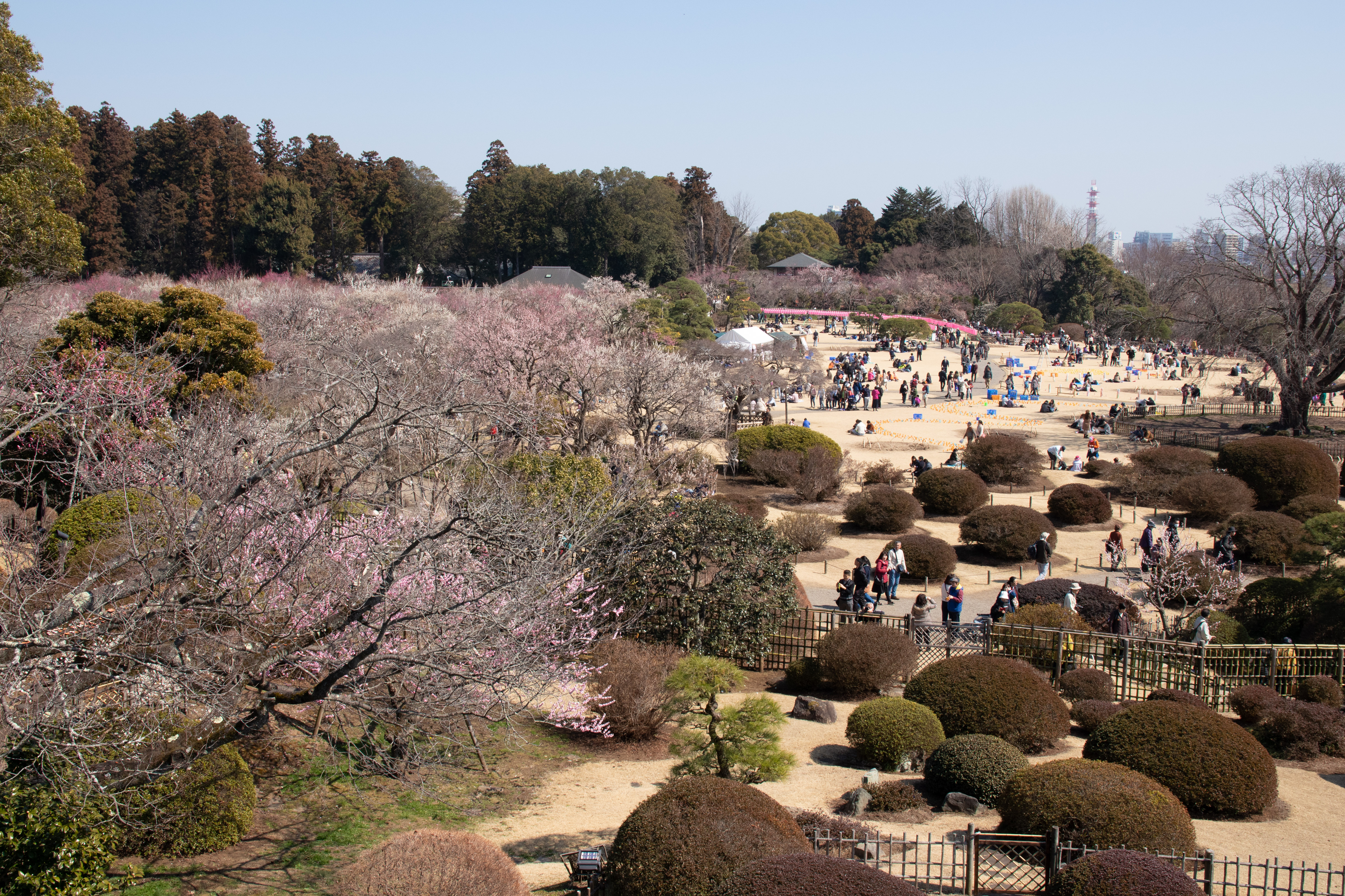 Mito-no-ume Matsuri Festival in Kairaku-en, Mito City, Ibaraki Pref., Japan